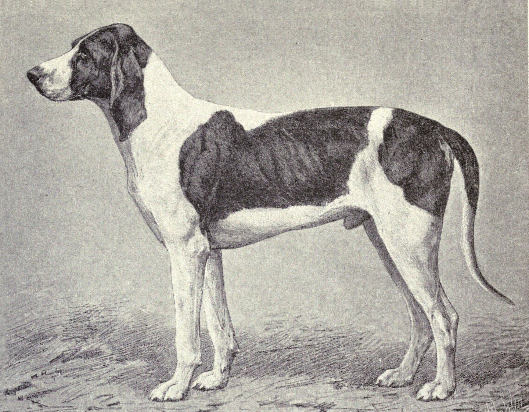 Poitou Hound from 1915